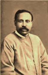 Sarat Chandra Das